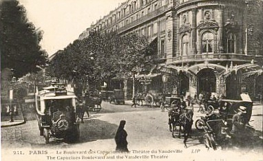 Boulevard des Capucines and Vaudeville theater on the right